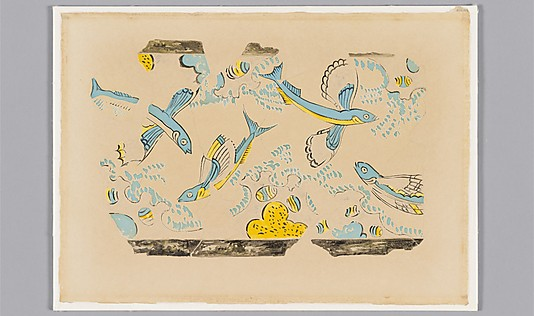 Fragments of the flying fish painting, Phylakopi, redrawn by Emile Gilliéron: Metropolitan Museum of Art